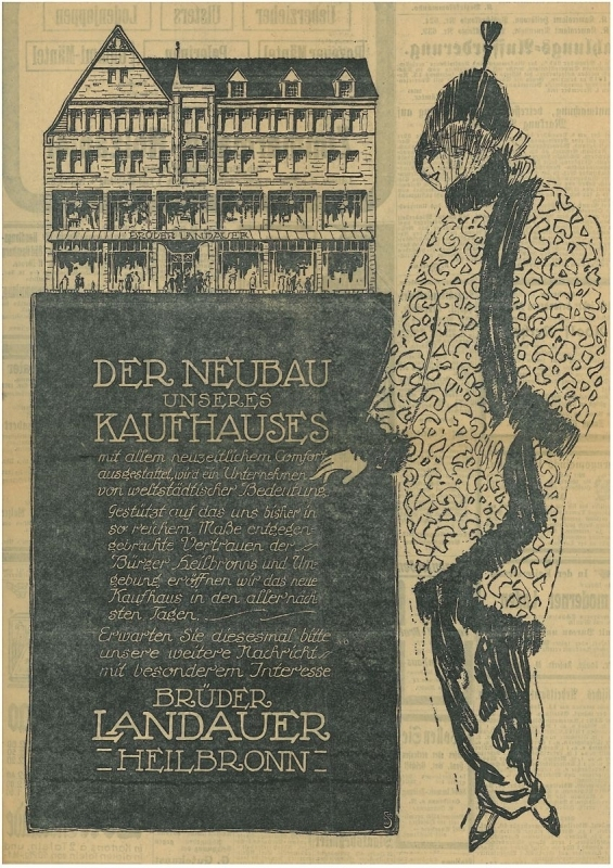 Ganzseitige Anzeige für das Kaufhaus der Brüder Landauer vor Eröffnung des Neubaus Kaiserstraße 46 u. 48 (Heilbronn), 12. November 1913.jpg